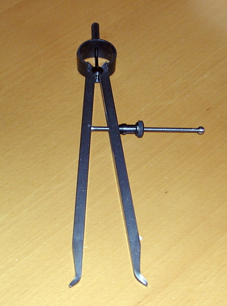 Spring inside dividers With the notches you can measure e.g. the inner diameter of tubewalls. With the screw and spring you can make a fine and stable adjustment.